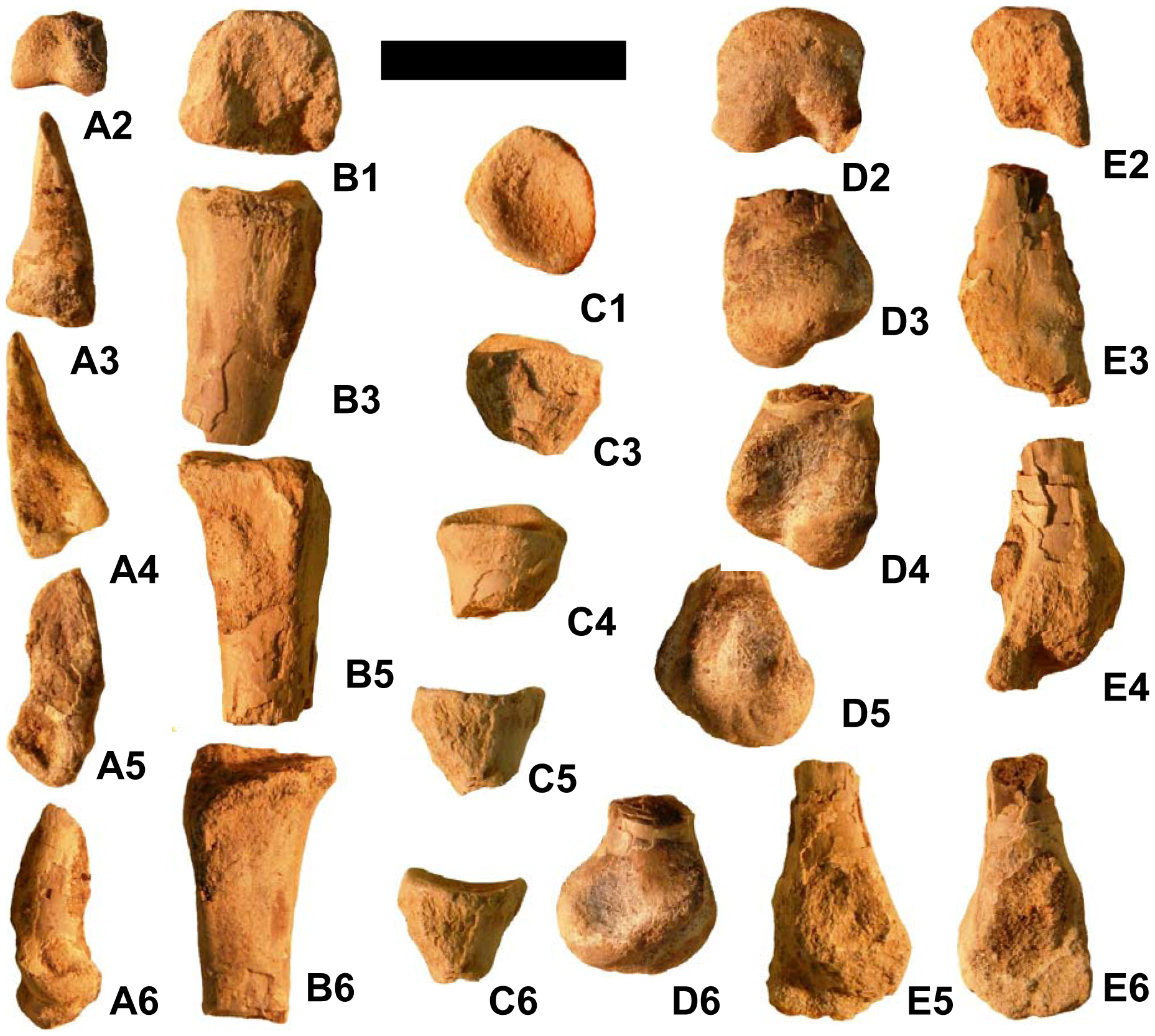 Metatarsals of Martharaptor greenriverensis (UMNH VP 21400). (A)–Left metatarsal I. (B)–Left metatarsal II. (C)–Presumed left metatarsal III. (D)–Right metatarsal II. (E)–Right metatarsal IV. Scale bar = 50 mm. Numbers on sub-figures refer to proximal (1), distal (2), dorsal (3), plantar (4), medial (5), and lateral (6) views.